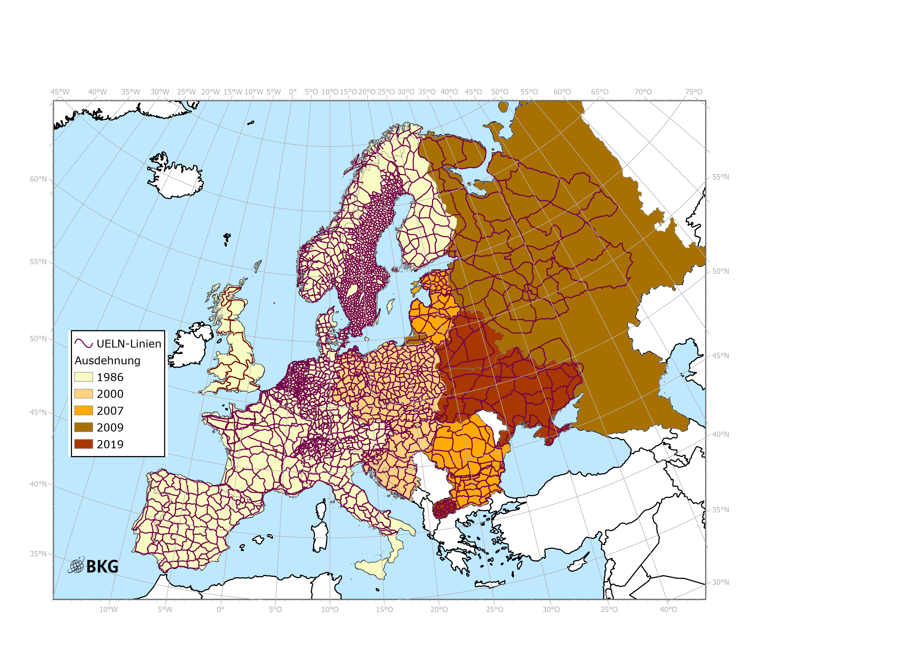 network graph of United European Leveling Network (UELN)